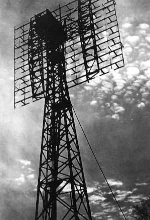 111.5 MHz Reflective array antenna at Fort Monmouth, New Jersey, USA, used by the US Army Signal Corps, 1946, in Project Diana to bounce a radar signal off the Moon. It consists of 64 half-wave dipoles in an 8x8 array in front of a flat reflective screen, and had a gain of 24 dB and a main lobe beamwidth of about 15°. It was driven by a 50 kW modified SCR-271 radar set that produced quarter-second pulses. The echoes took about 2.5 seconds to return. The antenna could be rotated in azimuth only so the experiment could only be done at moonrise and moonset as the moon passed through the antenna's horizontal beam. It was the first demonstration that artificial radio signals could penetrate the ionosphere. From [1]